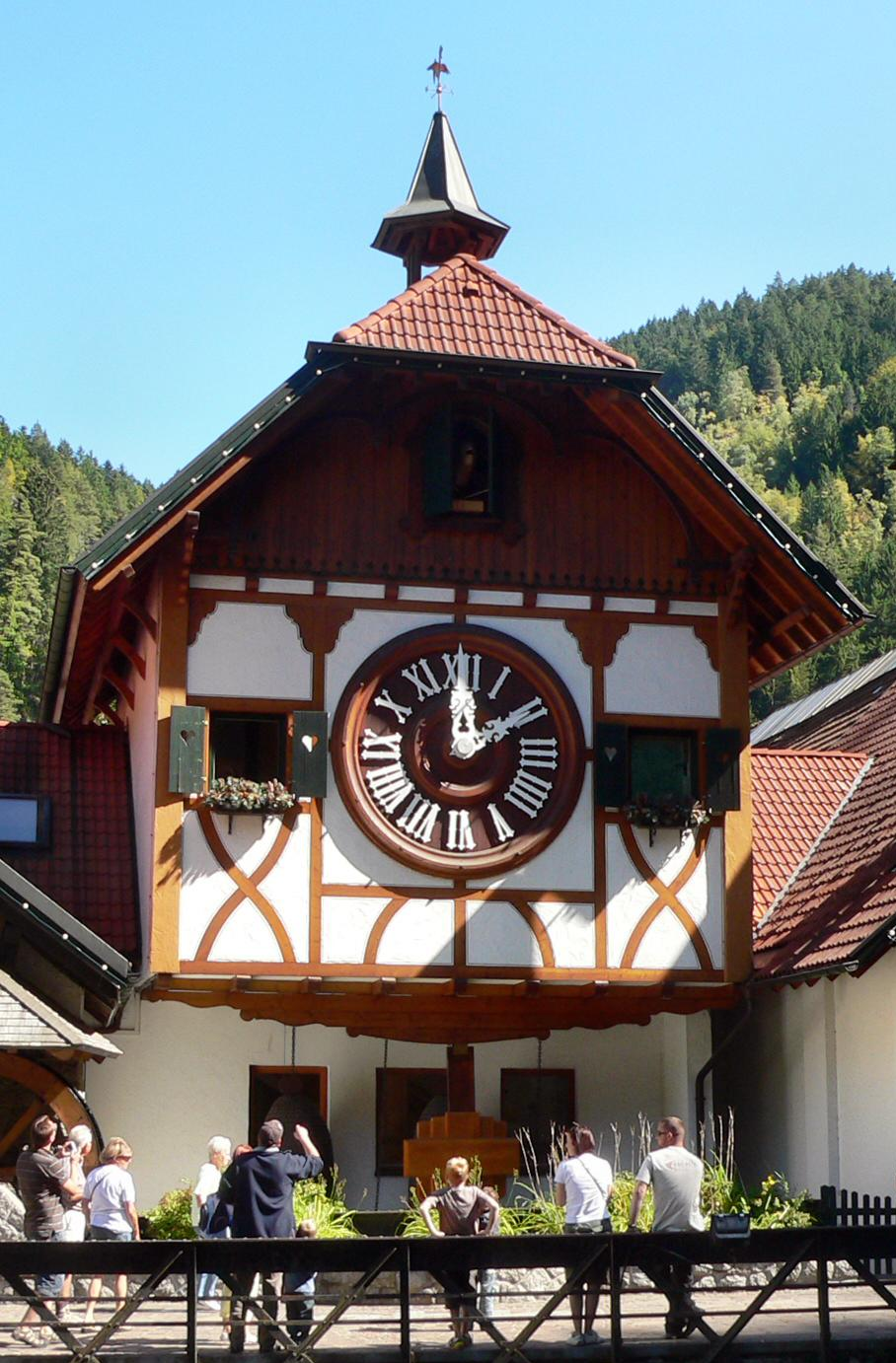 One of the worlds greatest coucou clocks, scale 60:1,in Triberg, Germany